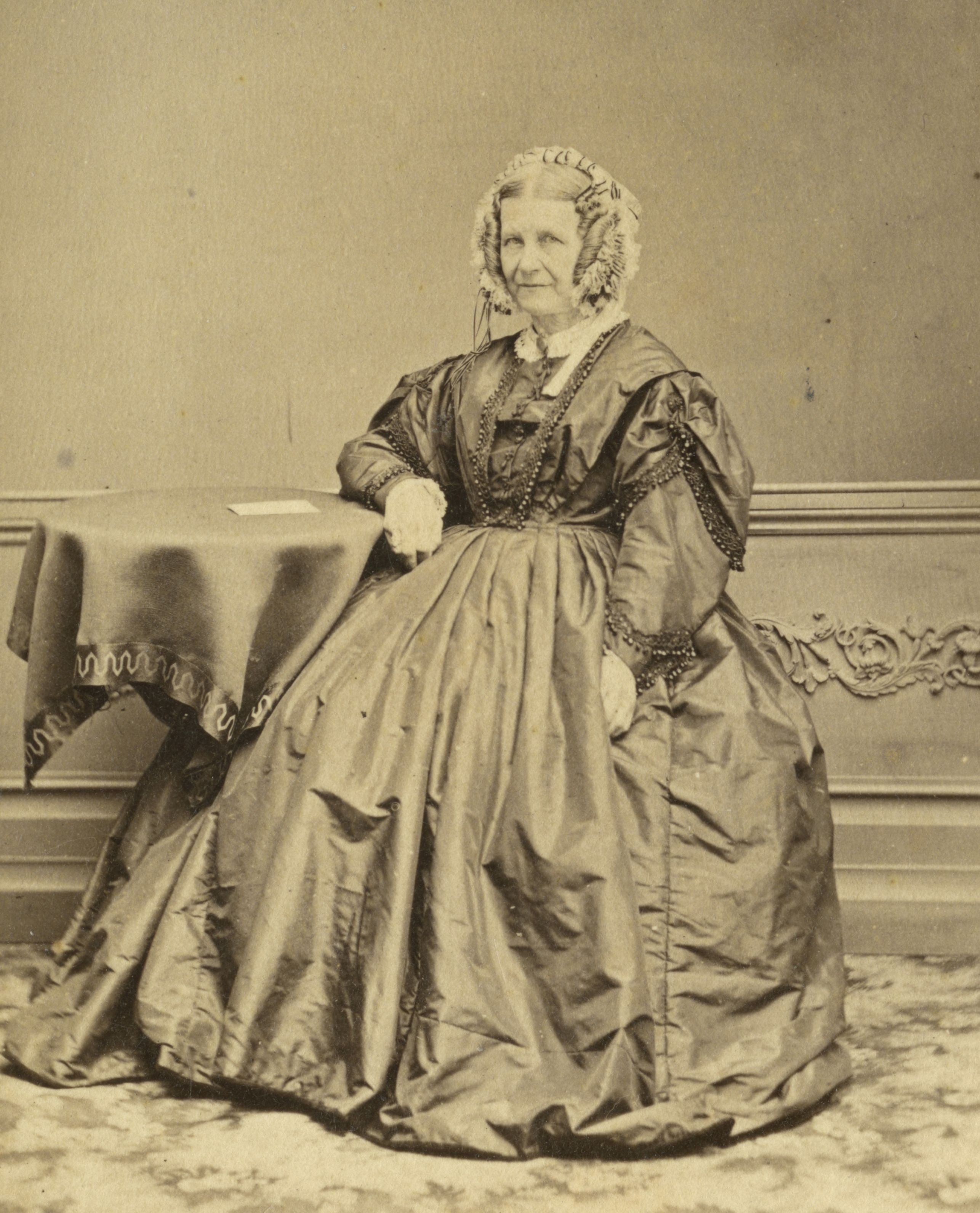 Portrait of Sophia Brittan (1830-1872)